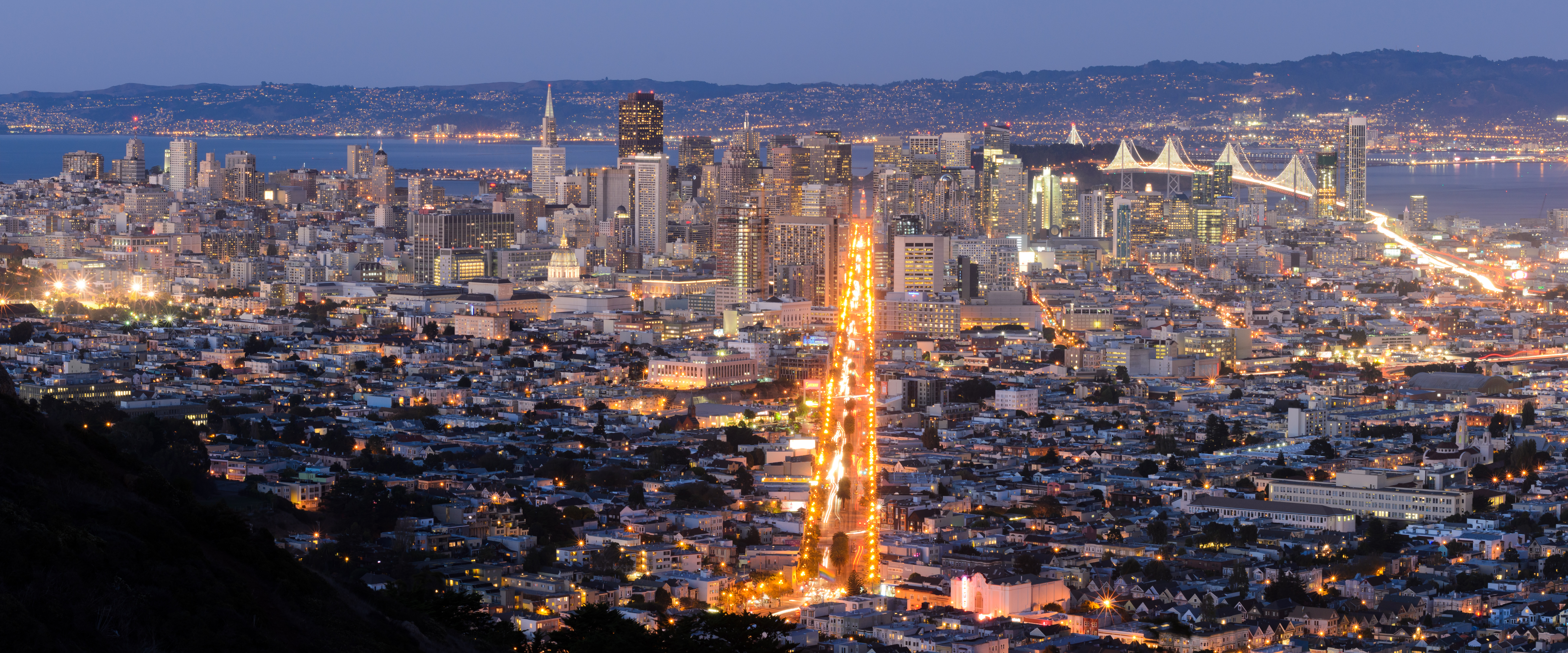 Two-segment panorama of the San Francisco skyline, as seen from Twin Peaks.